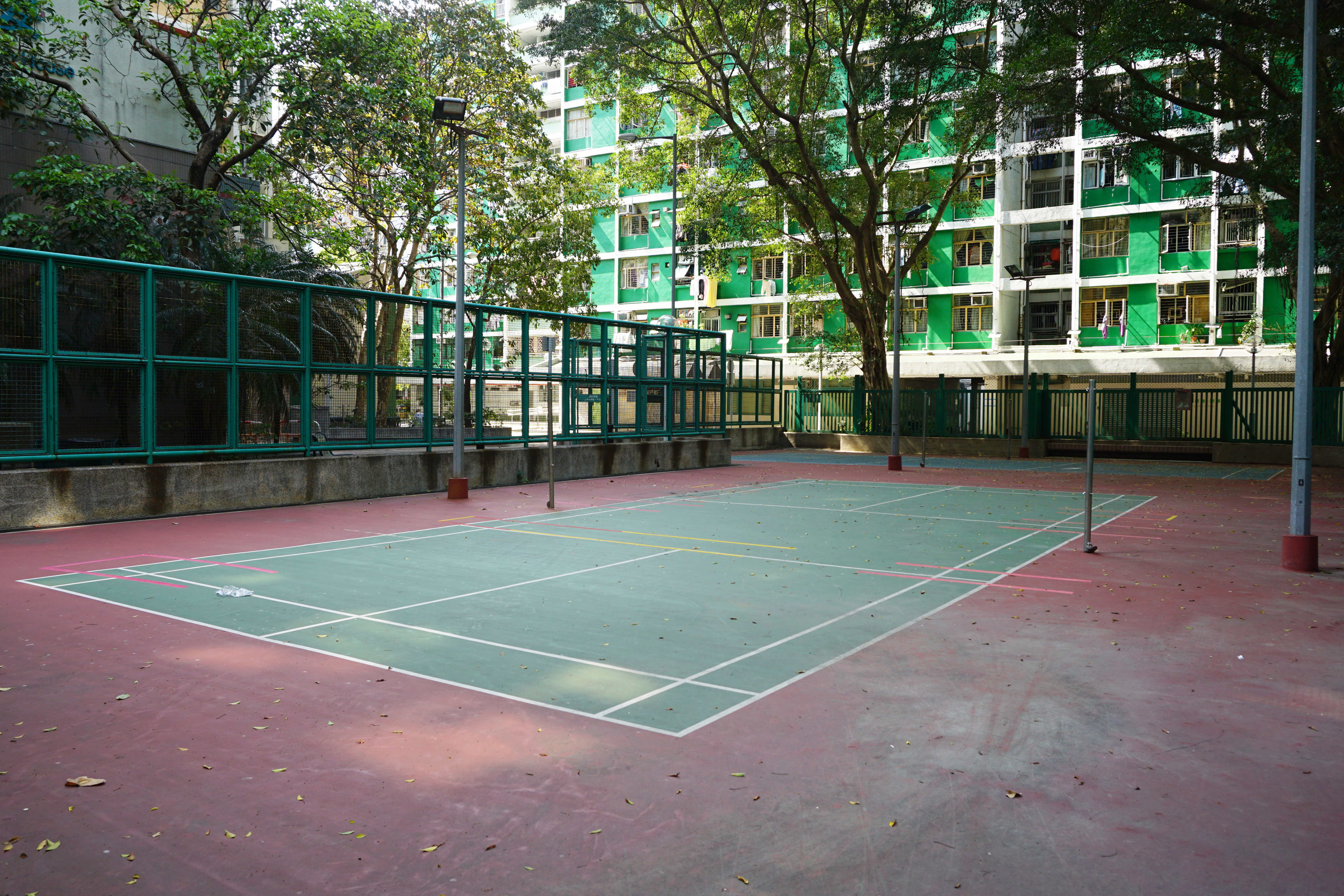 Tai Hang Tung Estate in Shek Kip Mei, Hong Kong.